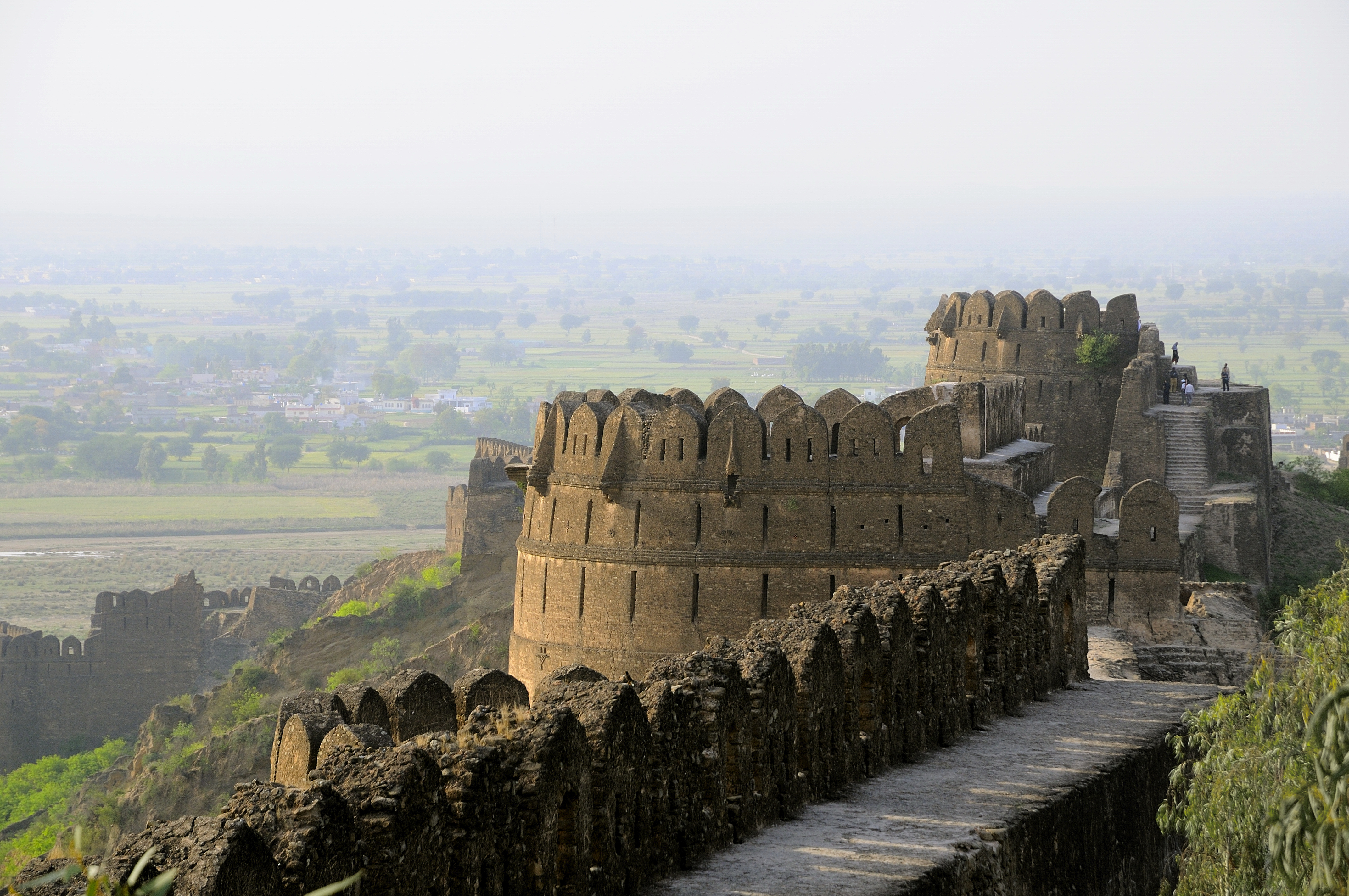 Rohtas Fort This is a photo of a monument in Pakistan identified as the PB-30